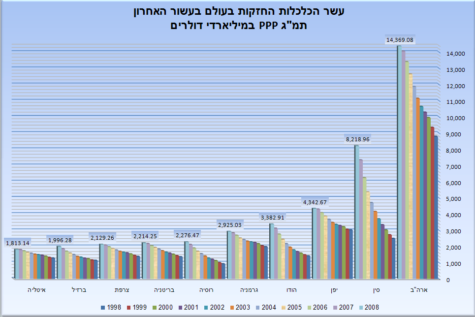 The Ten strongest Economies In The World Between 1998 2008 - from World Economic Outlook Database, April 2011 [1]